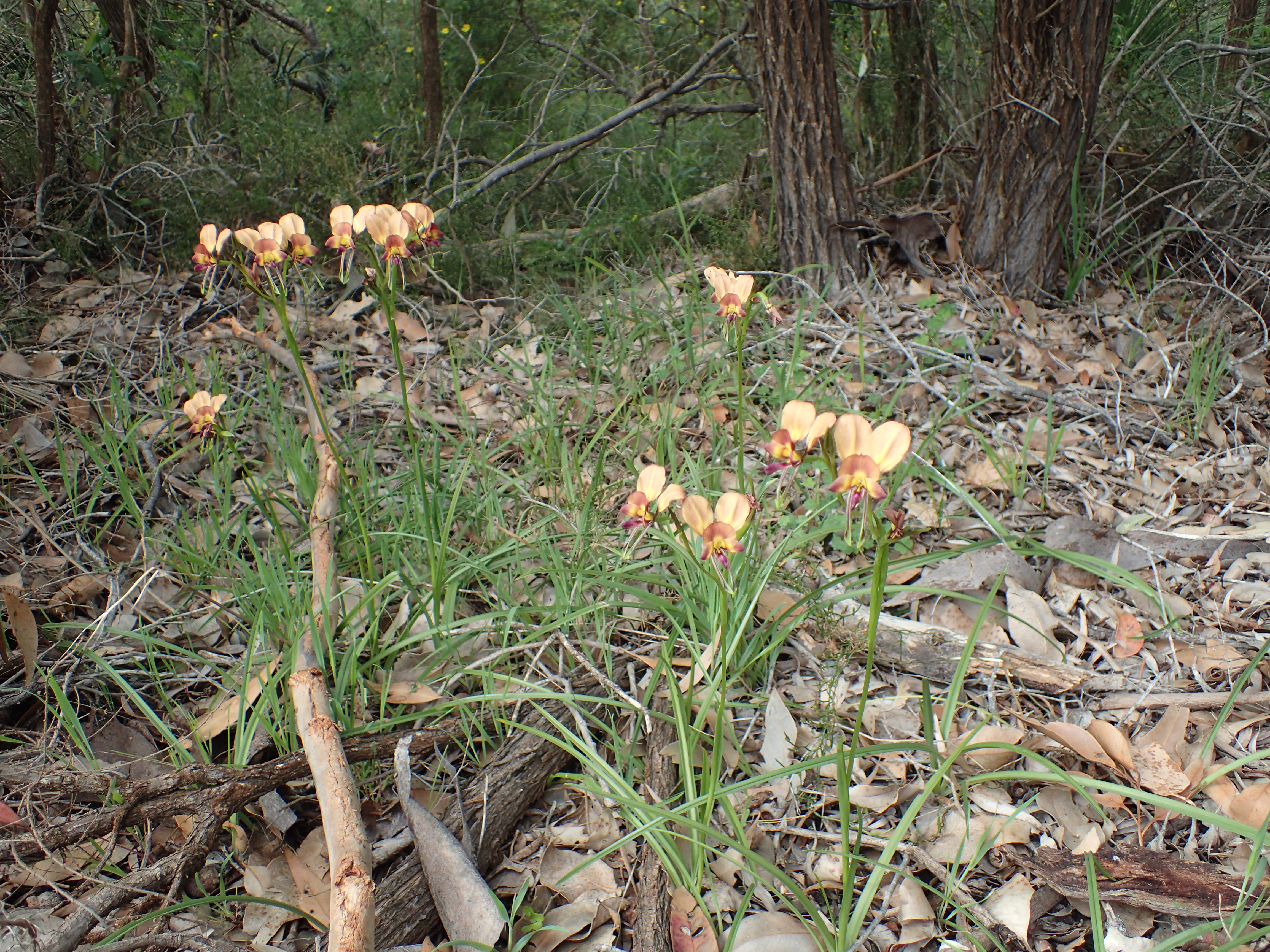 Several clumps of Diuris jonesii